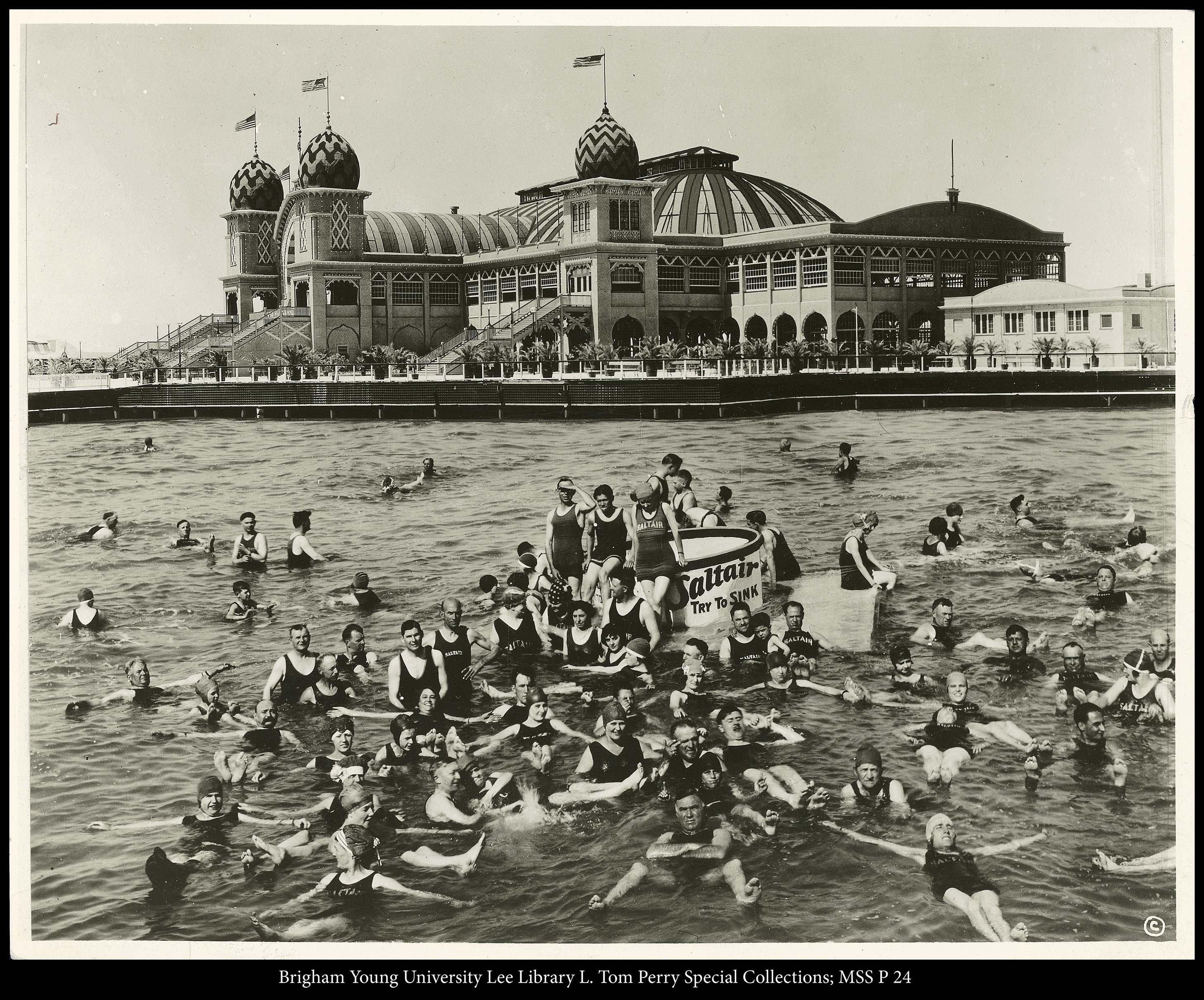 Bathers wearing Saltair bathing suits, posing by a buoy that says "Saltair, Try To Sink." Written on the back- Bathing at Saltair Beach - Utah, Savage. Back label- Wilson Photos 315 Tribune BLDG. Was. 4969. Probably photographed by Charles R. Savage.